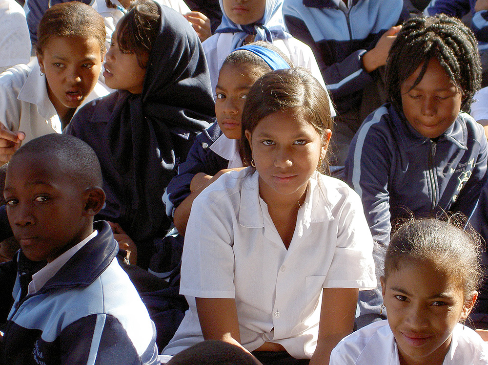 School children at Imperial Primary School in Eastridge, Mitchell's Plain (Cape Town, South Africa).